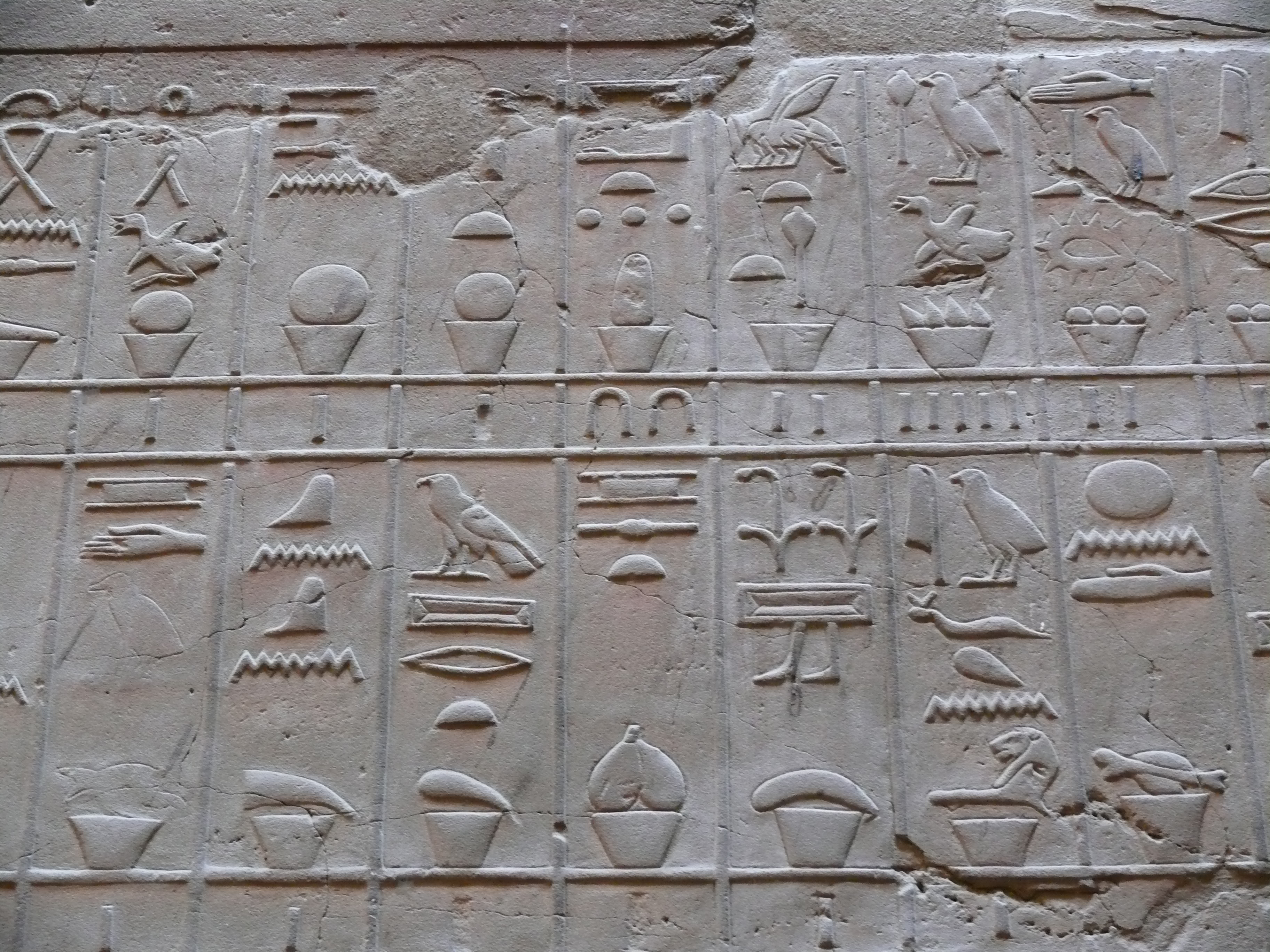 Relief with Egyptian numerals in the temple of Luxor.